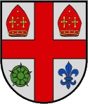 Coat of arms of Binningen